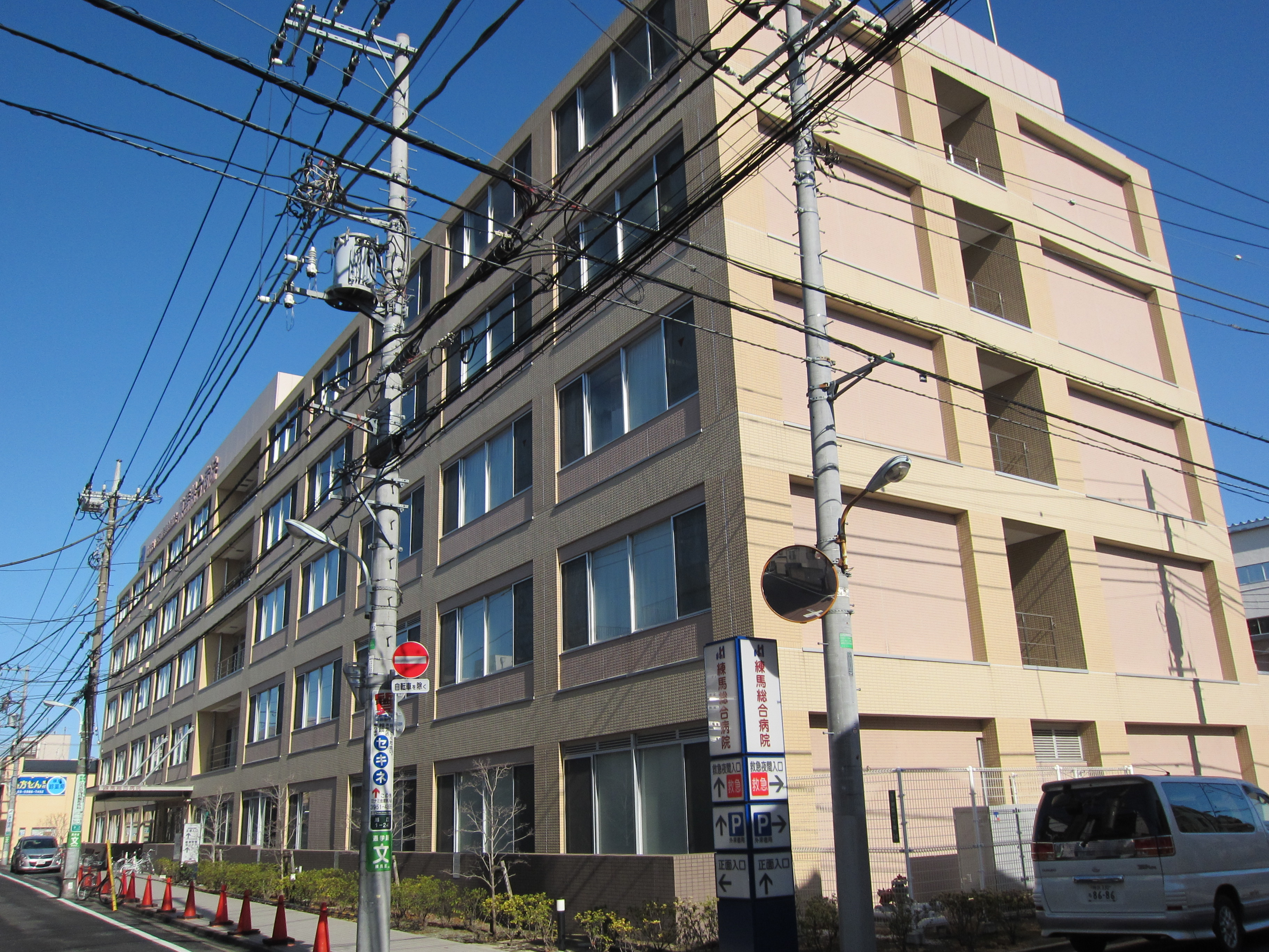 Nerima General Hospital